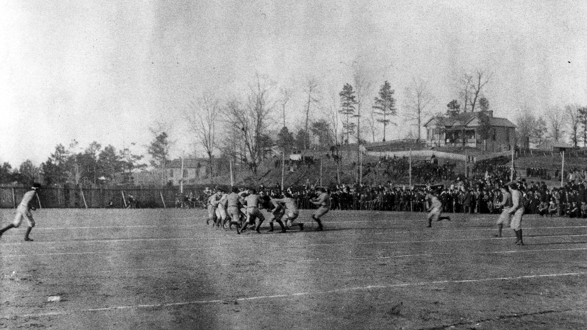 Scene of the first Iron Bowl ever.